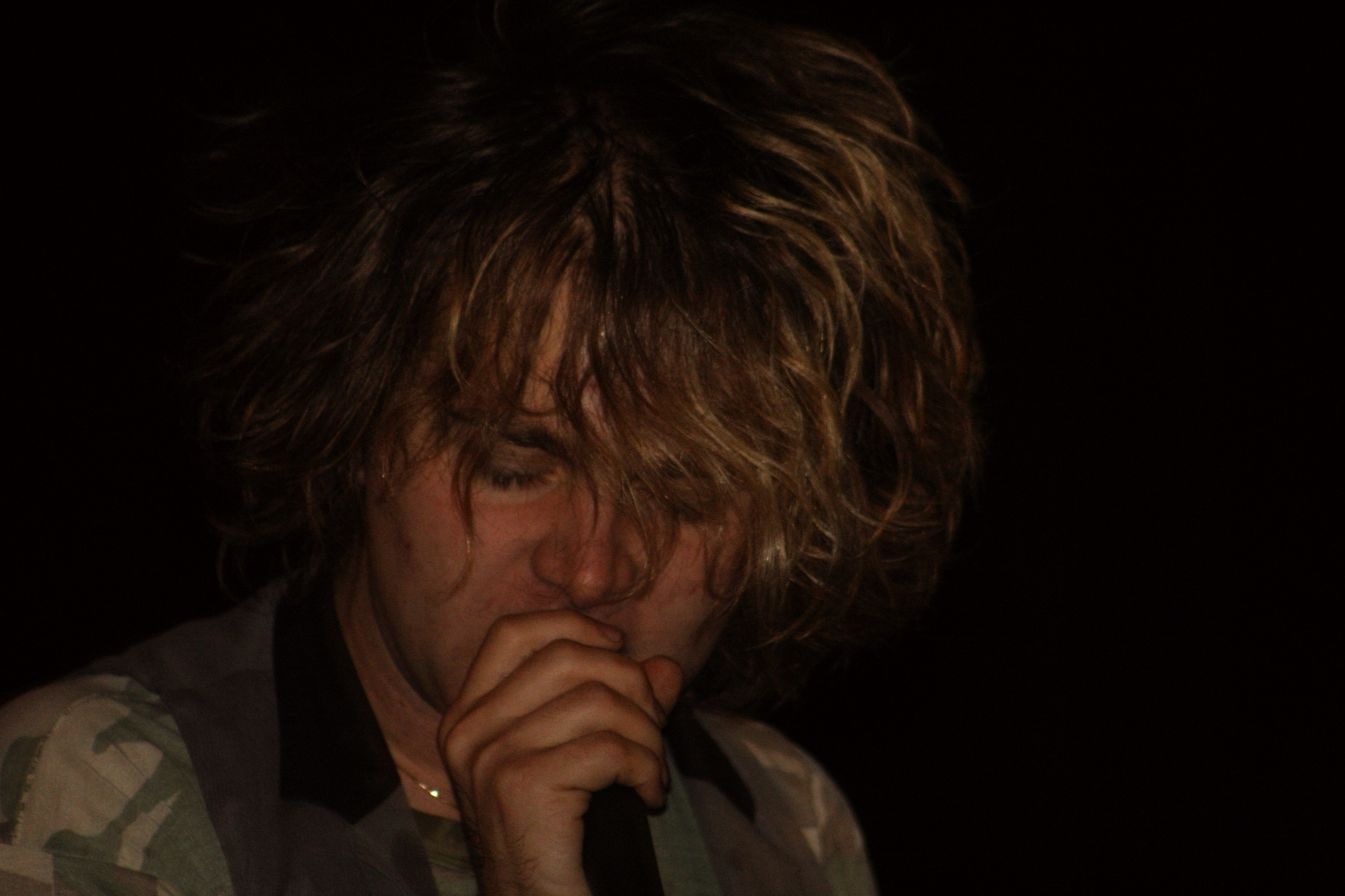 American vocalist Johnny Whitney performing with Jaguar Love in 2008.